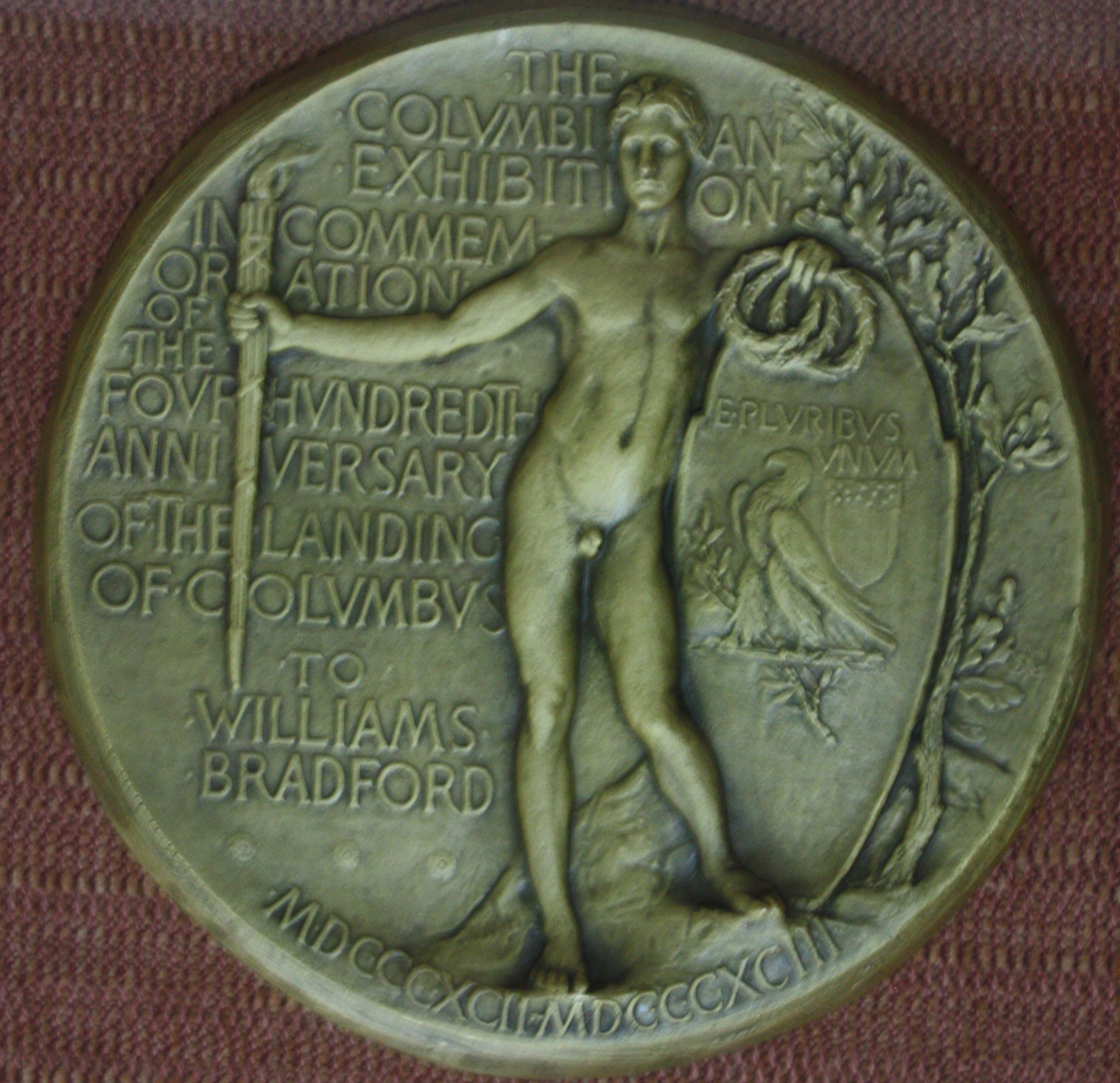 Photo by Wehwalt of Augustus Saint-Gaudens' rejected design for the World Columbian Exposition Medal